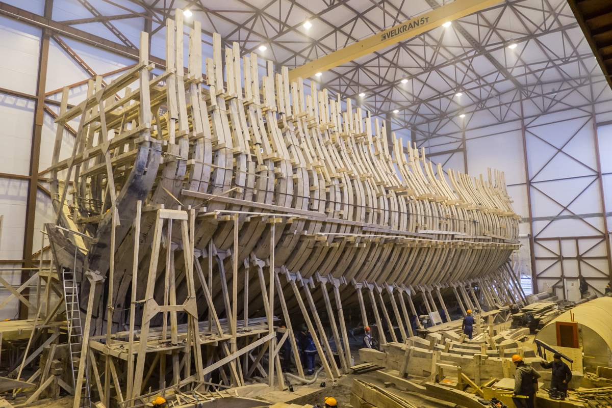 Warship «Poltava», February 2015